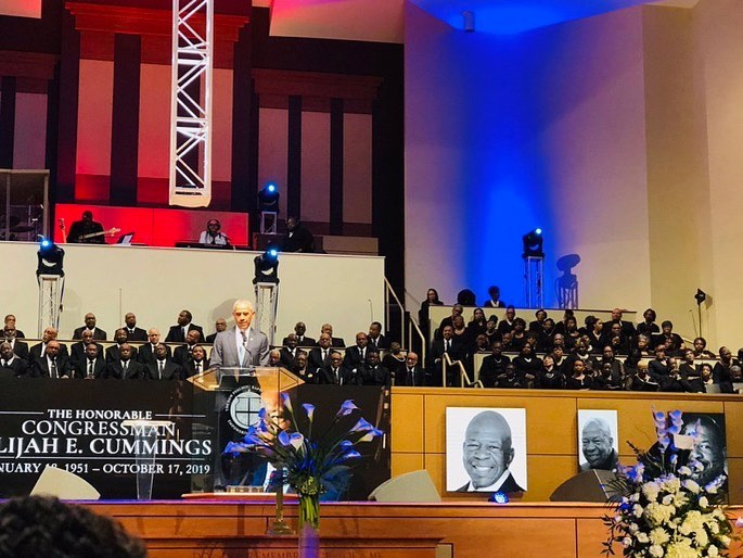 RIP Elijah Cummings! Let your works speak for you! Rest my good and faithful servant! 44 gave a powerful testimony of the Chairman! #TheHonorable #RIP